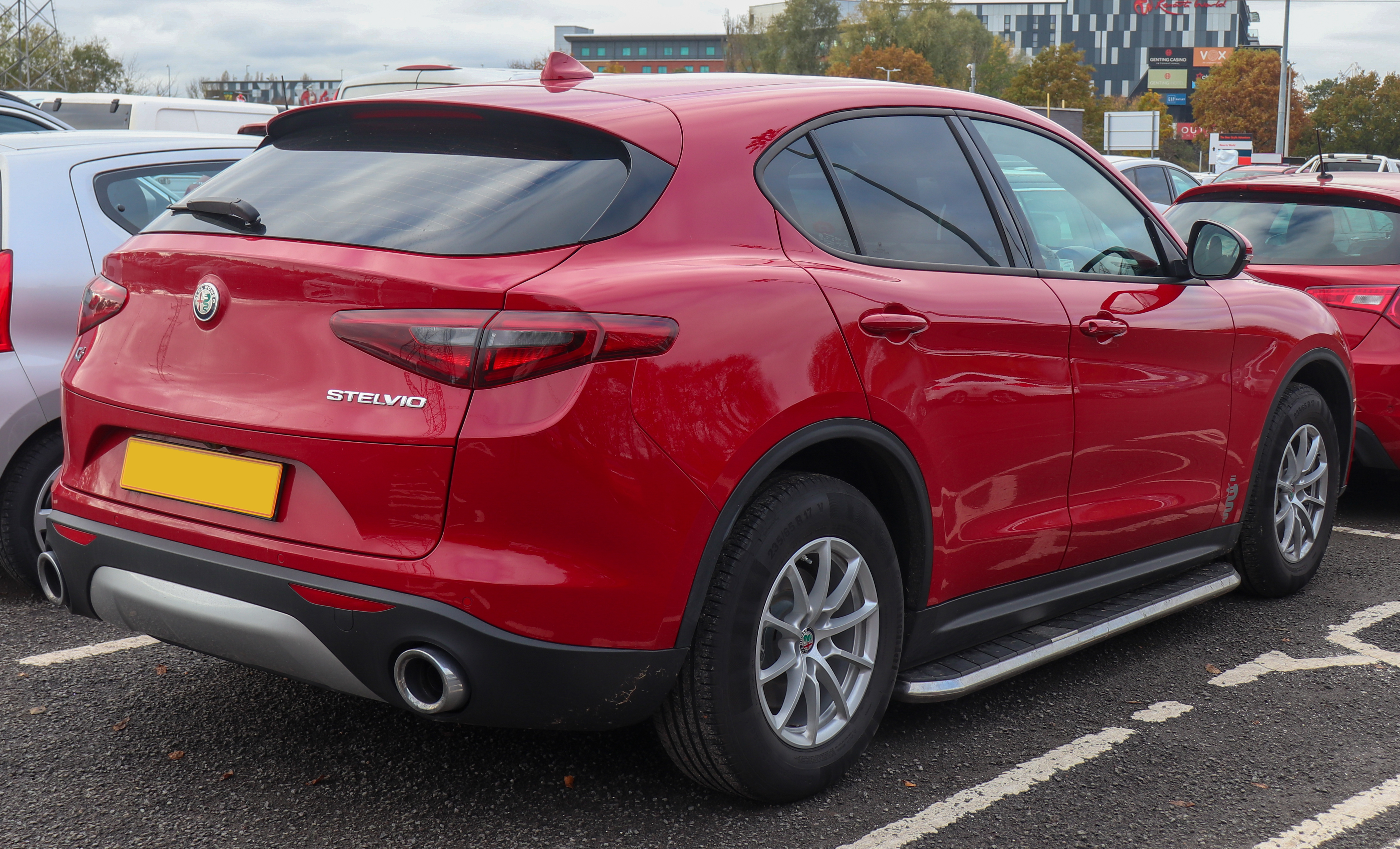 2018 Alfa Romeo Stelvio TB AWD Automatic 2.0 Rear Taken in the NEC Car Park, Birmingham